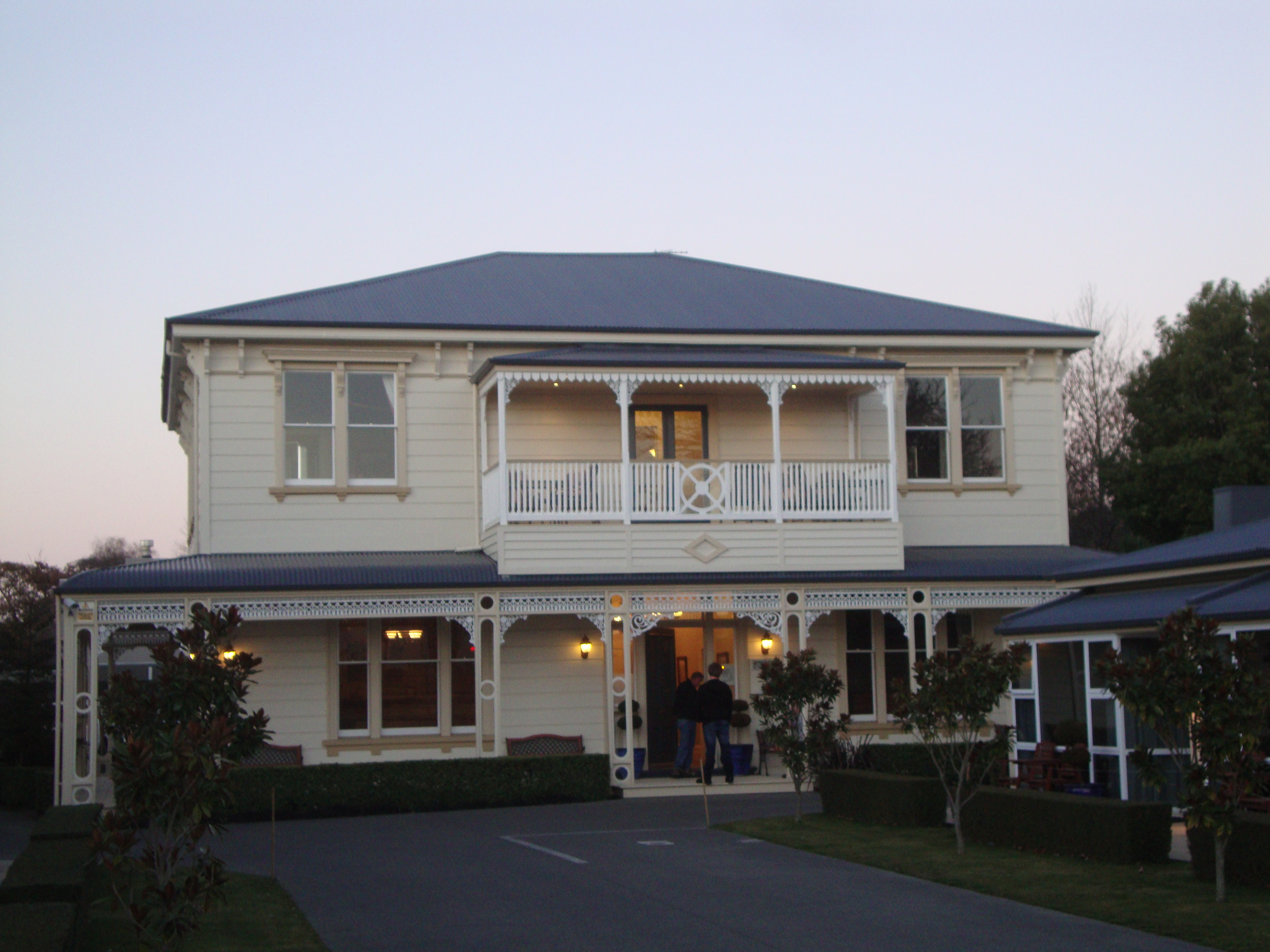 Merivale Manor (Te Wepu) in August 2011.